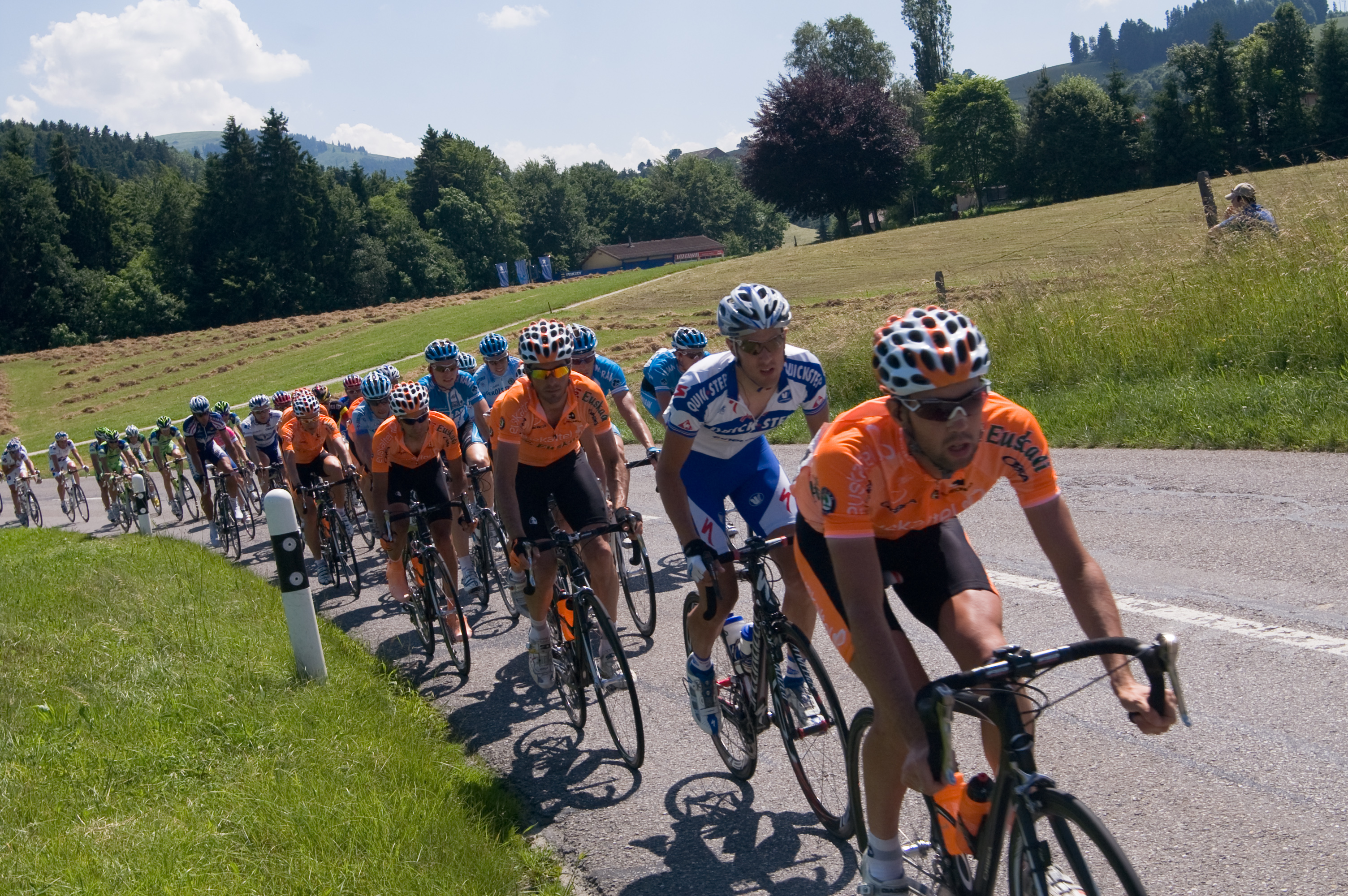 Euskaltal-Euskadi Team during the Tour de Suisse 2008.